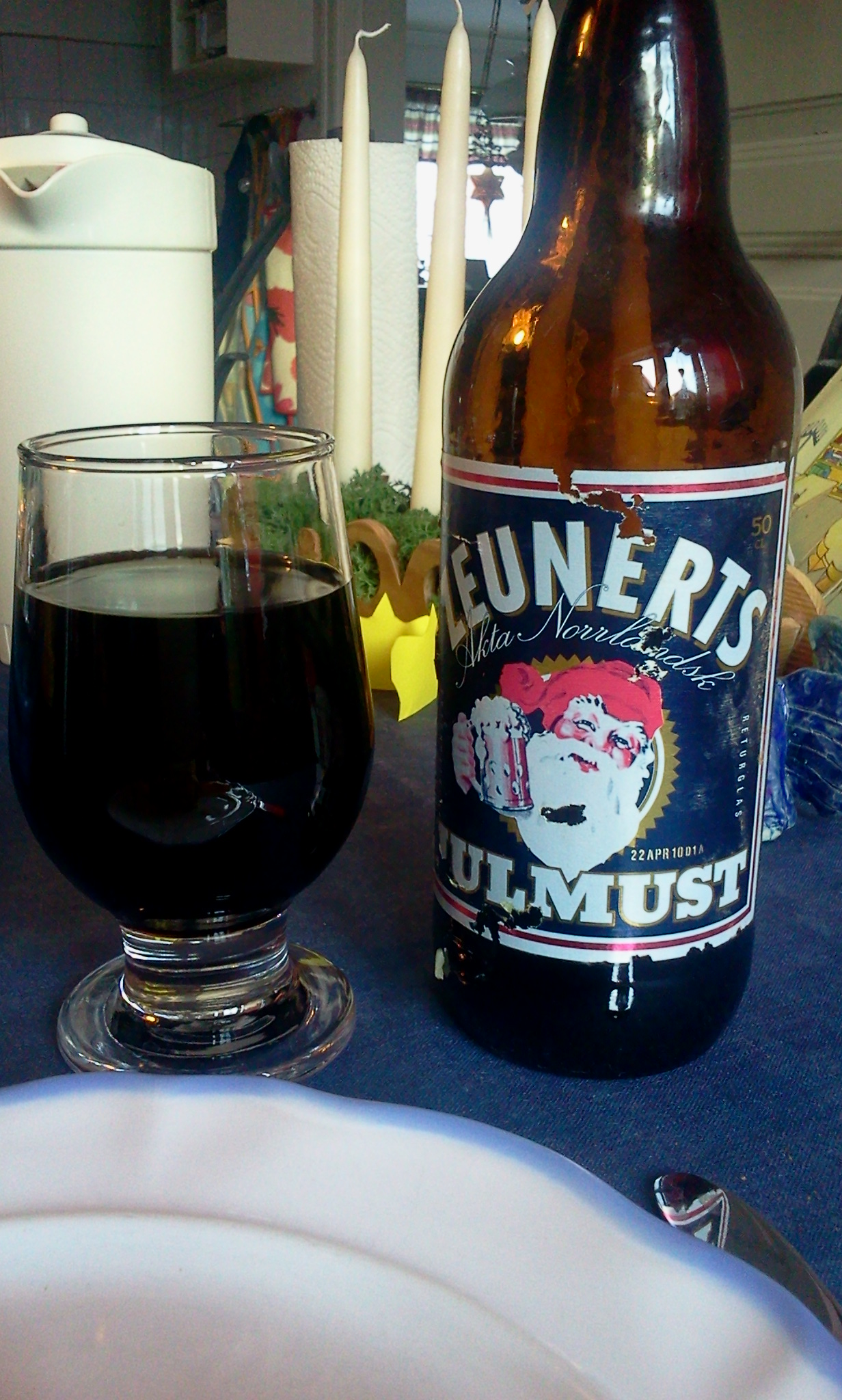 Bottle and glass of Swedish beverage julmust from Zeunerts.